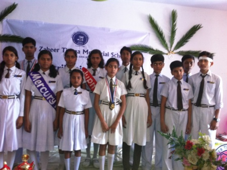 Council Members